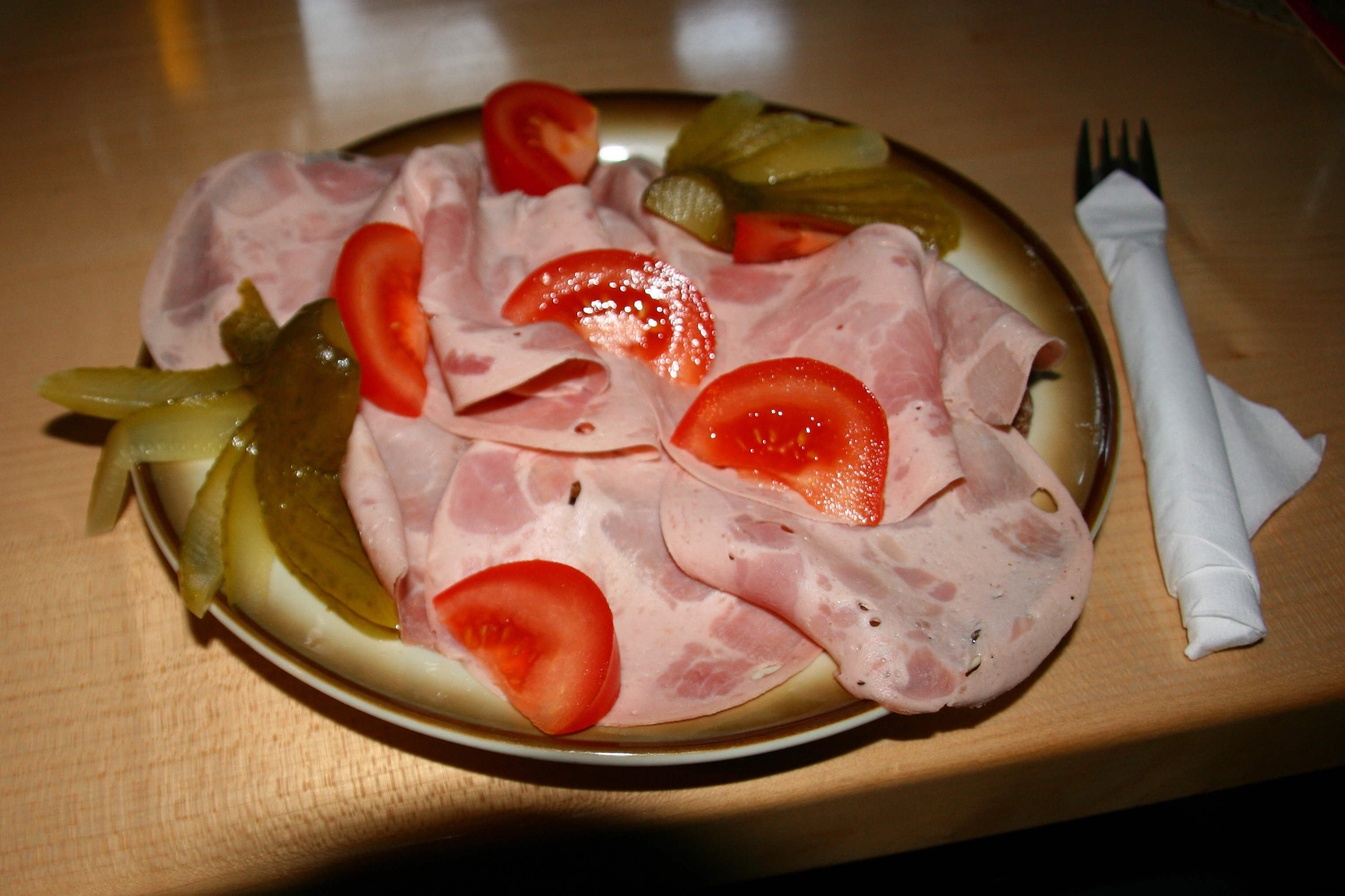 sausage sandwich